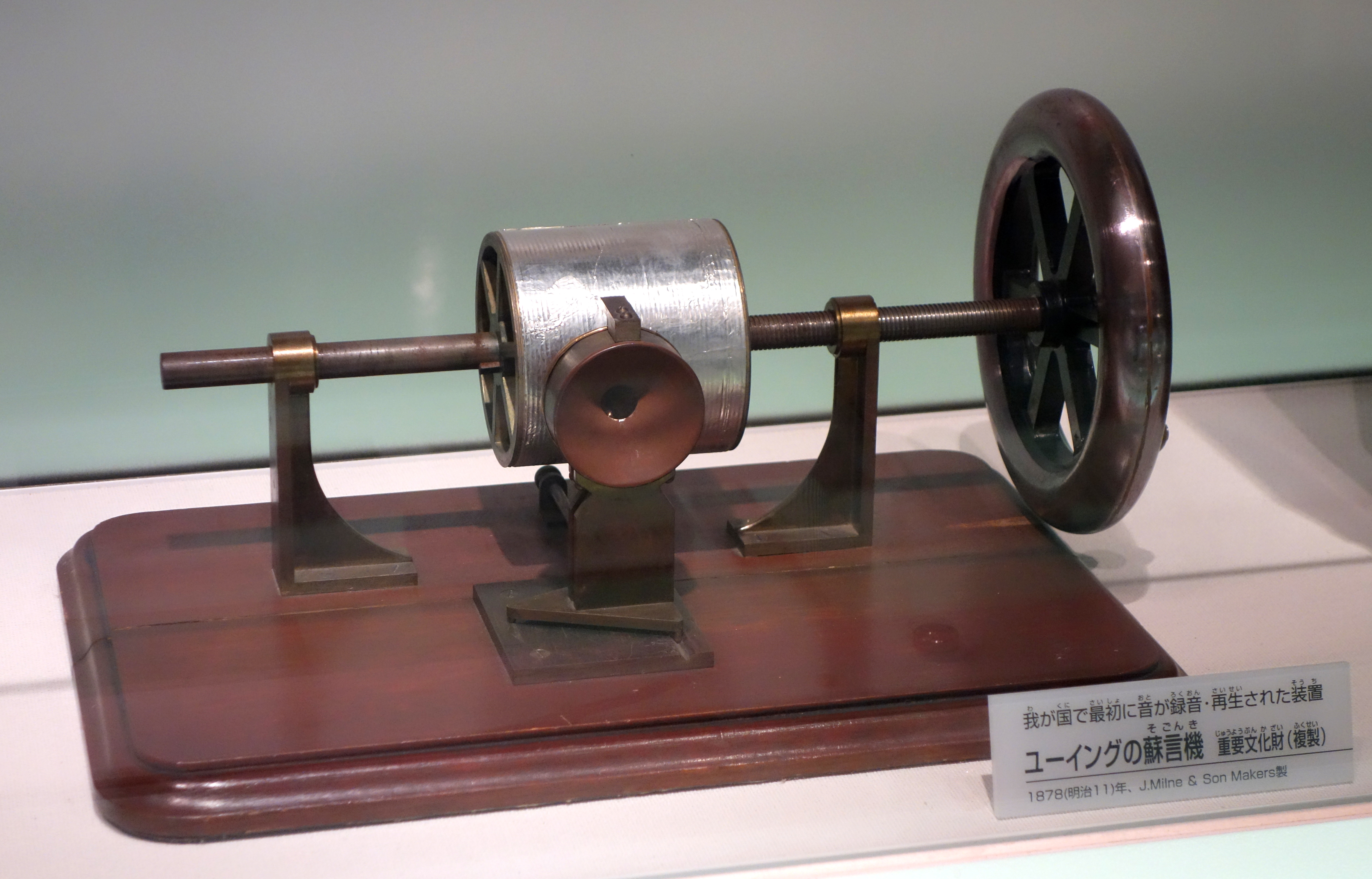 Exhibit in the National Museum of Nature and Science, Tokyo, Japan.